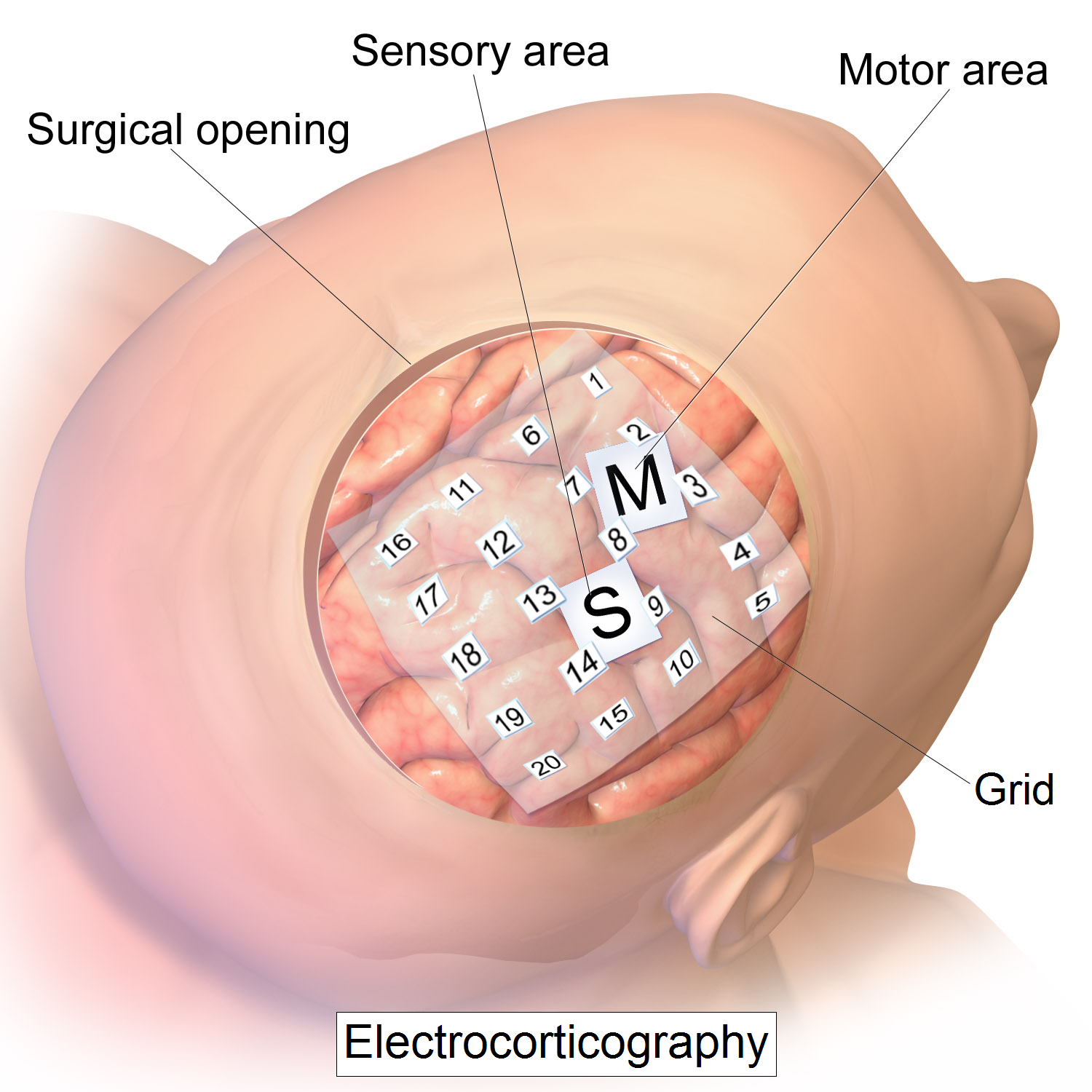 Brain Mapping. This image was donated by Blausen Medical. Please visit our website to see more medical illustrations and animations.